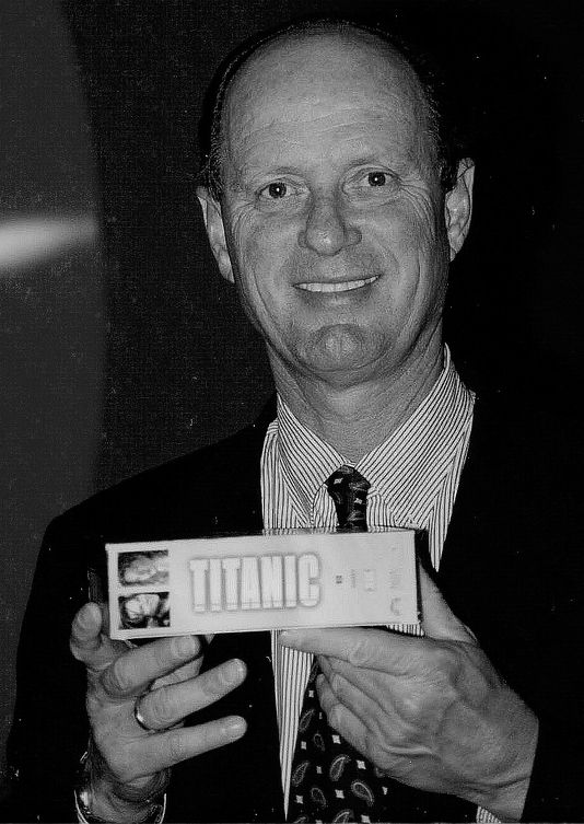 Baltimore M.D. National Aquarium November 18, 1999